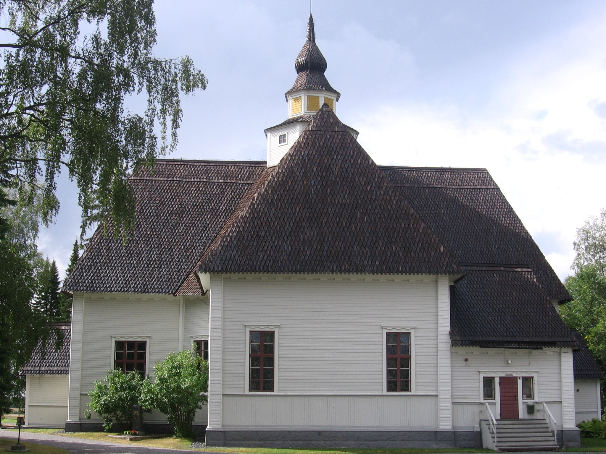 Nurmo Church seen from east. Nurmo, Finland.